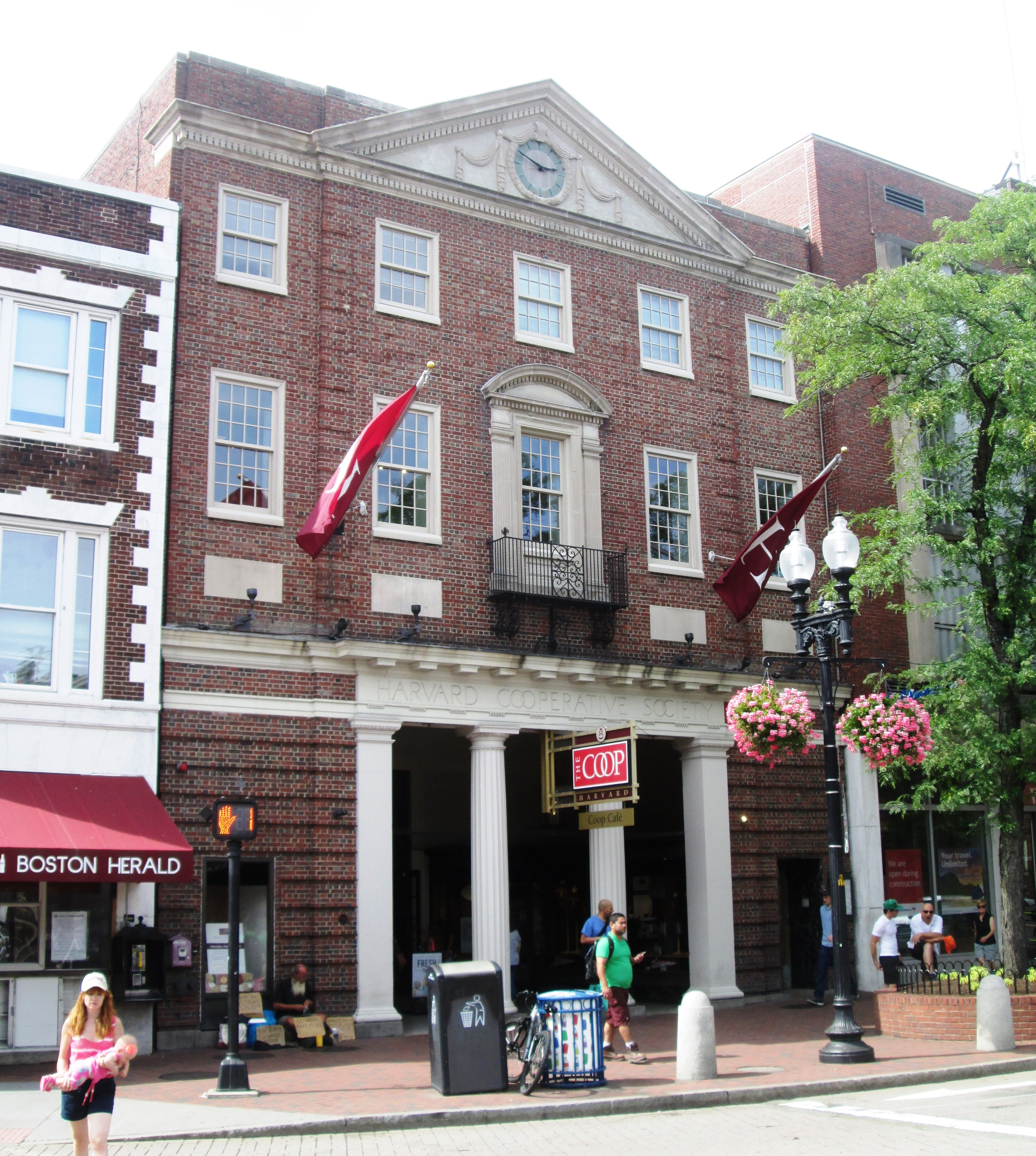 The Harvard/MIT Cooperative Society (or The Coop, pronounced as a single syllable[1]) is a Cambridge, Massachusetts retail cooperative for the Harvard University and MIT campuses. The general public is encouraged to freely enter and make purchases in all the Coop stores, but membership discounts and certain other benefits are restricted to Coop members. As of 2014, there are three store locations at Harvard, and two at MIT. The main store is located in the heart of Harvard Square, across the street from the Harvard subway station headhouse. The Coop was founded as the Harvard Cooperative in 1882 to supply books, school supplies, and wood and coal for winter heating. MIT, following its move from Boston to Cambridge in 1916, invited the Coop to open a branch of the store at the Institute, where it has been present ever since.The main store of The Coop, located at 1400 Massachusetts Avenue in Harvard Square, was built in 1924 and was designed by Perry, Shaw & Hepburn. There is an annex building on Palmer Street.